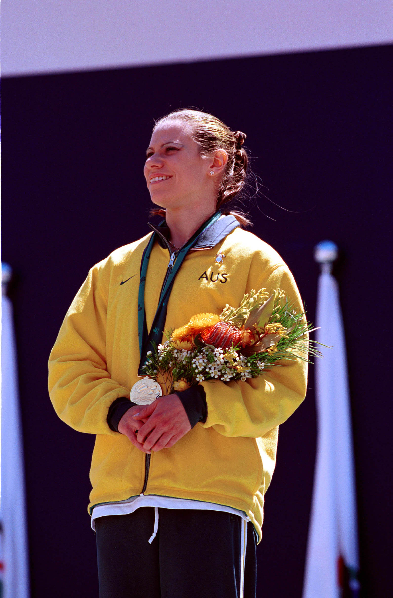 Australian athlete Lisa Llorens on the podium with her gold medal won in the 200 m T20 event at the 2000 Sydney Paralympic Games, Day 07